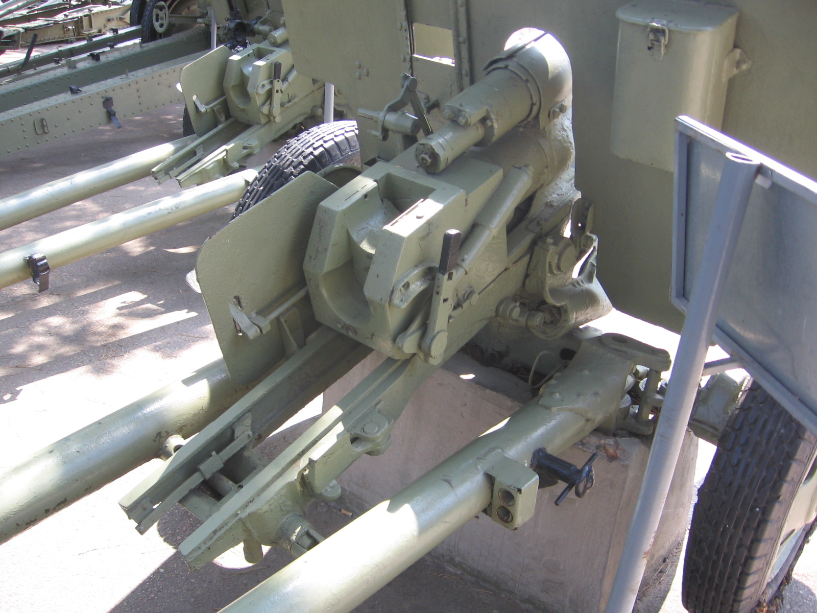 Soviet 57 mm anti-tank gun M1943 (ZiS-2), manufactured in 1943, is displayed at the Museum of Heroic Defense and Liberation of Sevastopol on Sapun Mountain in Sevastopol.